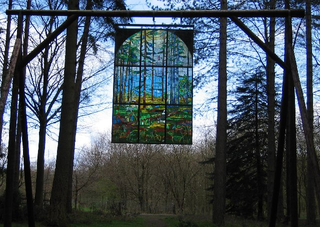 Stained Glass Panel, Sculpture Trail, Forest of Dean.